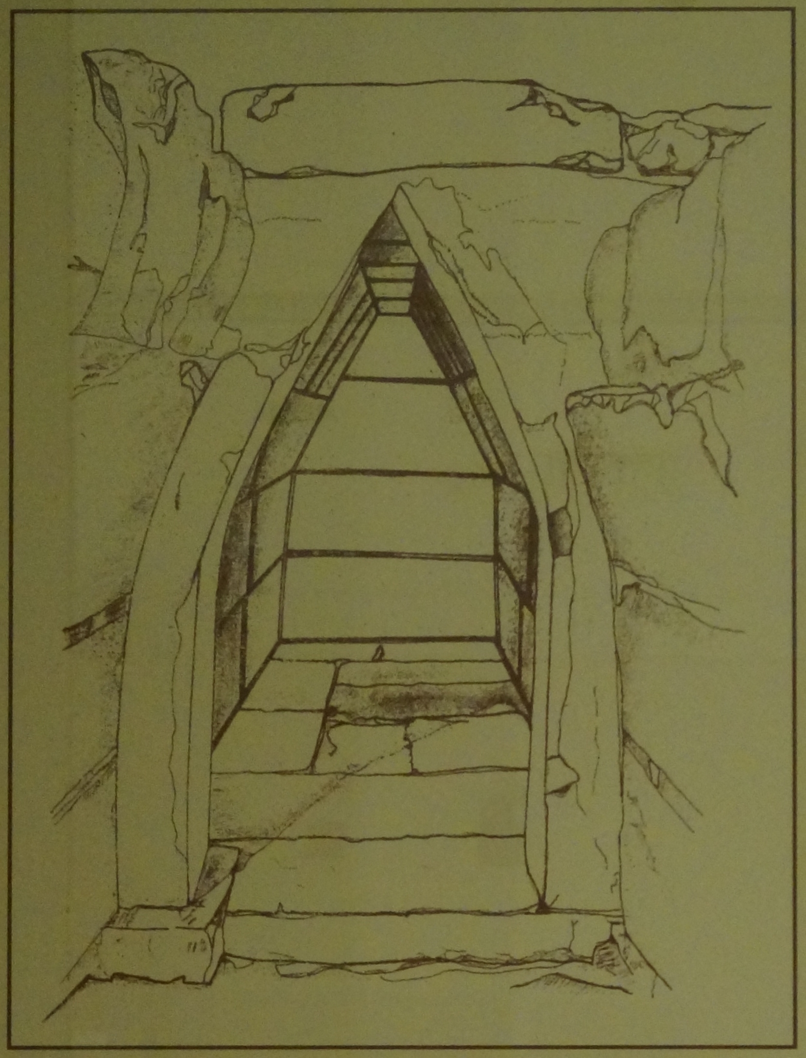 Archaeological Museum of Mycenae, grave circle B: Cross section of Grave Rho (LH II, about 1500-1400 BC)